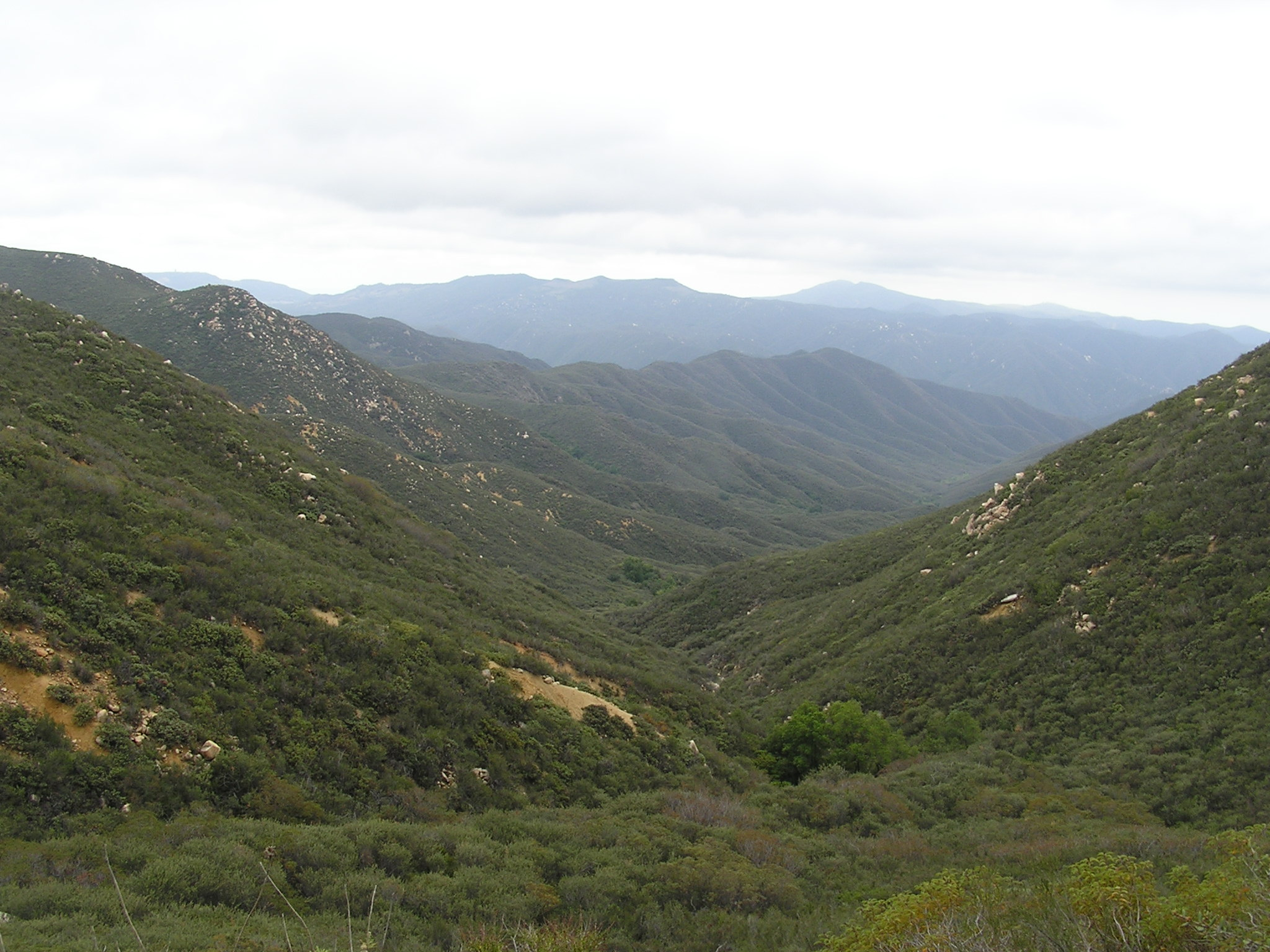 Looking south into the San Mateo Canyon Wilderness, Santa Ana Mountains, April 2007.